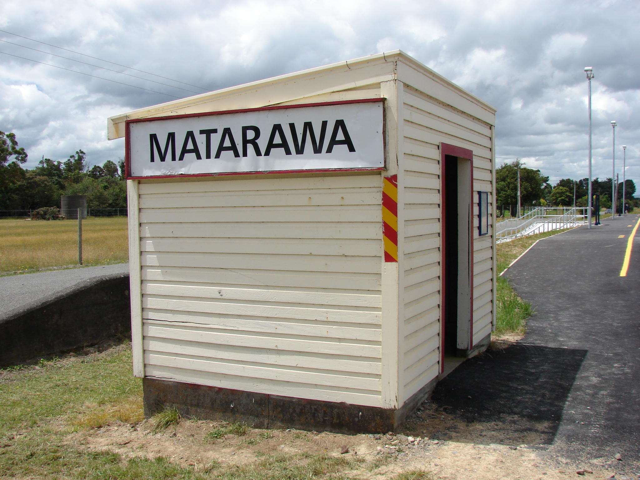 "Vogel-era" class 6 passenger shelter shed at Matarawa railway station. Photographed by Matthew25187 on 2007-12-22.